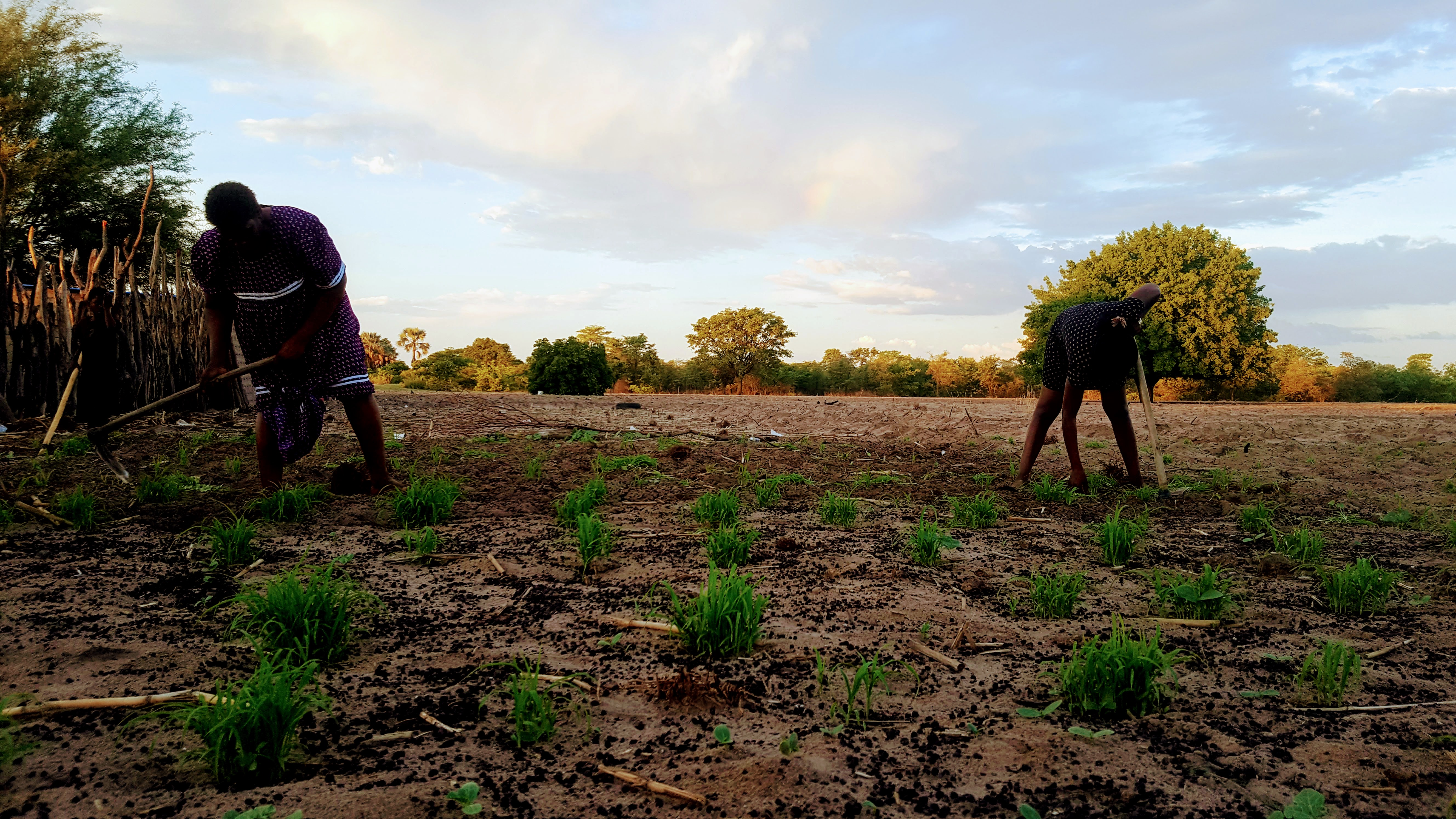 During the rainy season, Owambo women tend to mahangu fields surrounding the traditional homestead. This is an image of "African people at work" from Namibia